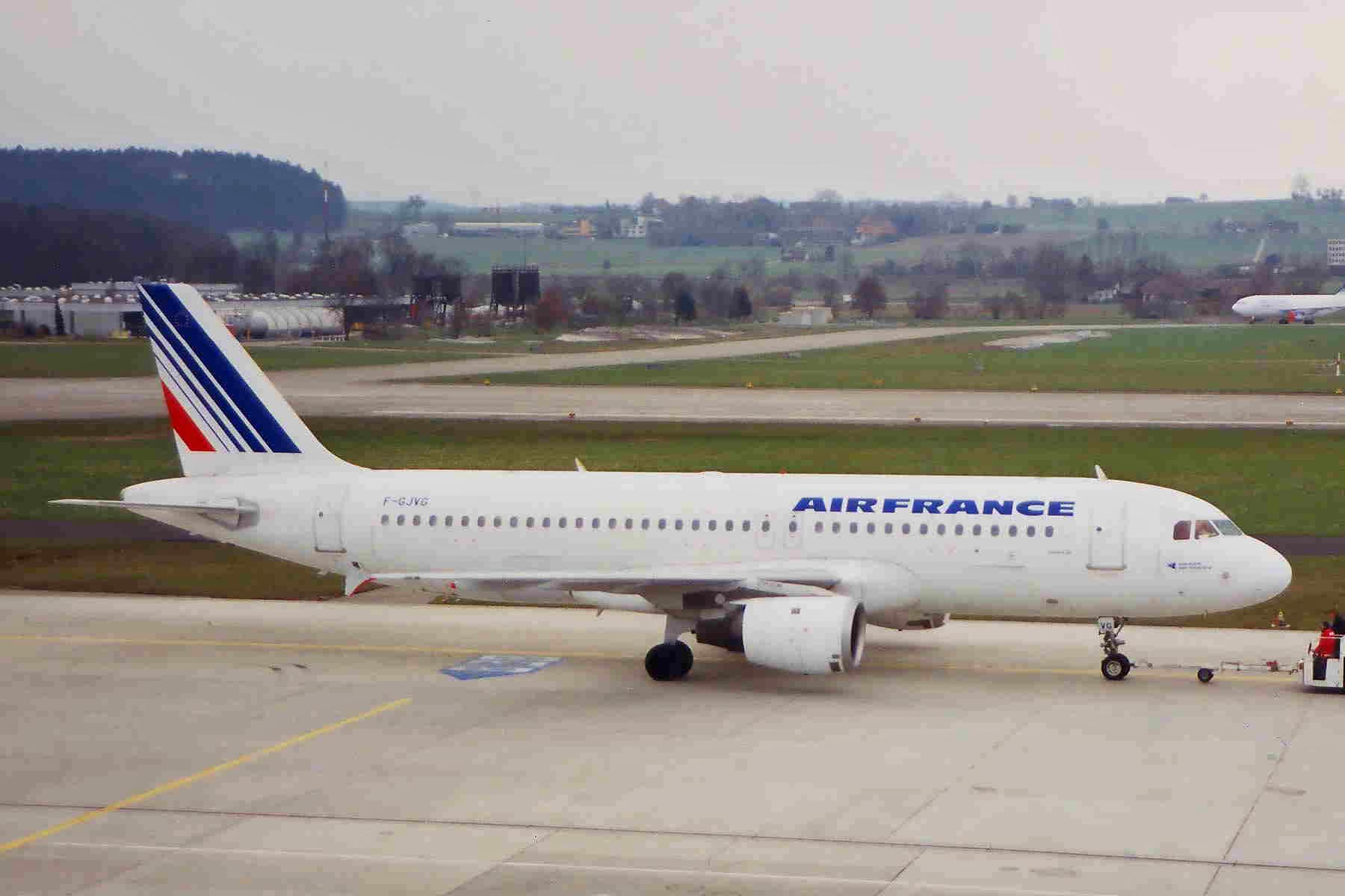 A picture of an airplane (name of it is on the file name).